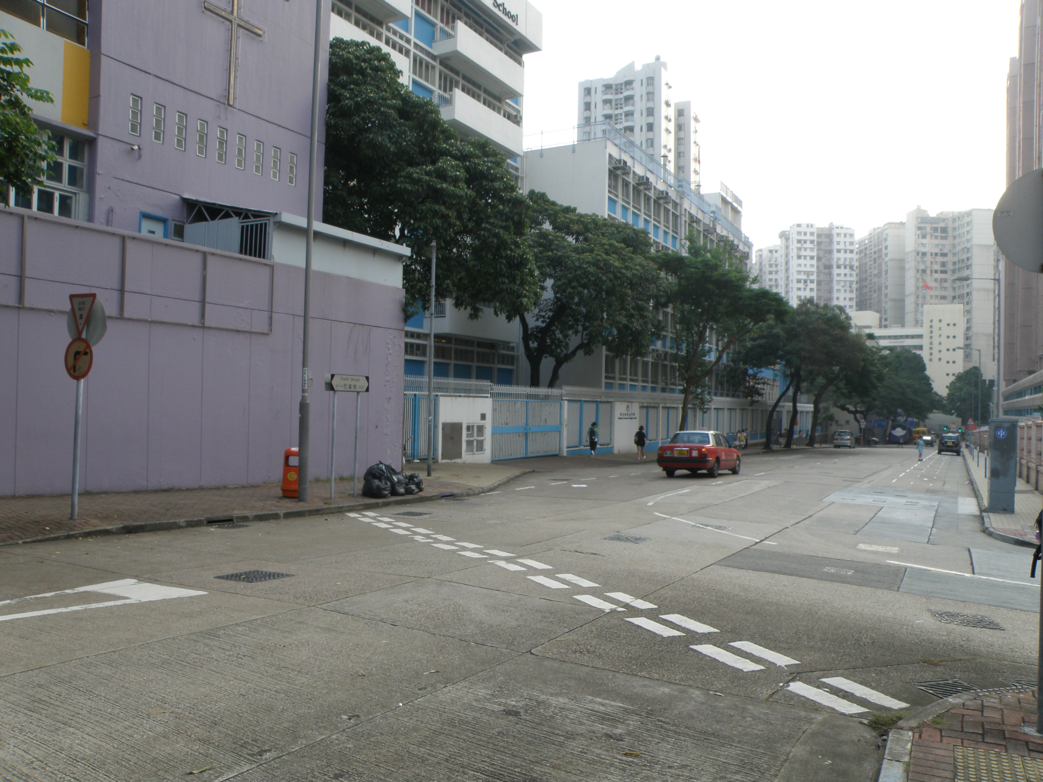 Perth Street in Ho Man Tin, Hong Kong.